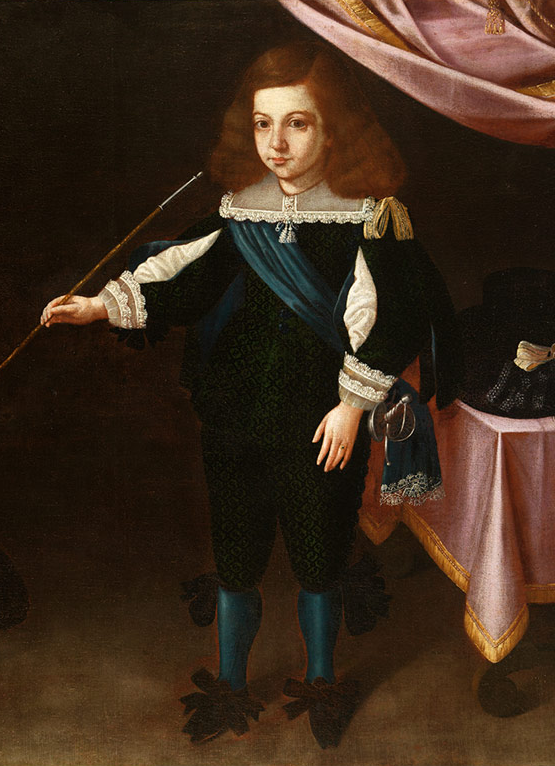 Infante Afonso of Portugal and a black page (c. 1653), by José de Avelar Rebelo. Currently in Museu de Évora, Portugal.